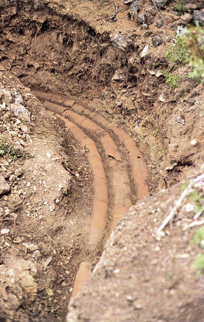 Terracotta pipes to supply the siphon of Pergame. II th century before J.C.